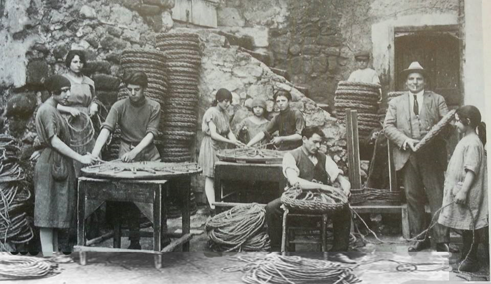 Ropes and fiber disks factory in 1900s, Viterbo - Italy